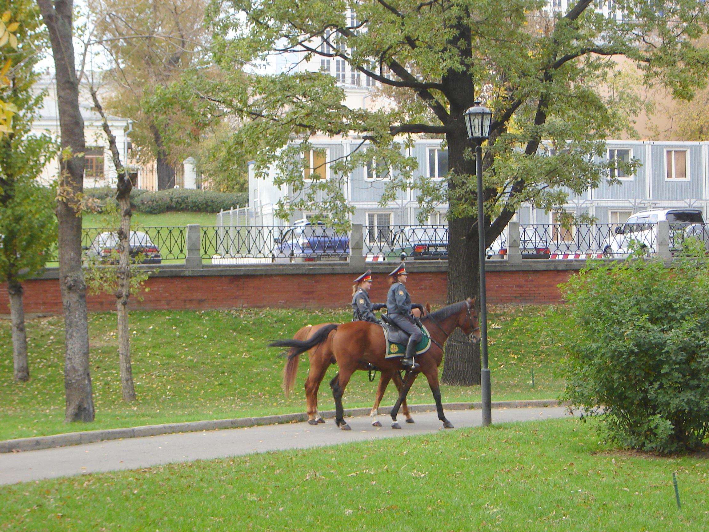 Women's Mounted Police near Kremlin